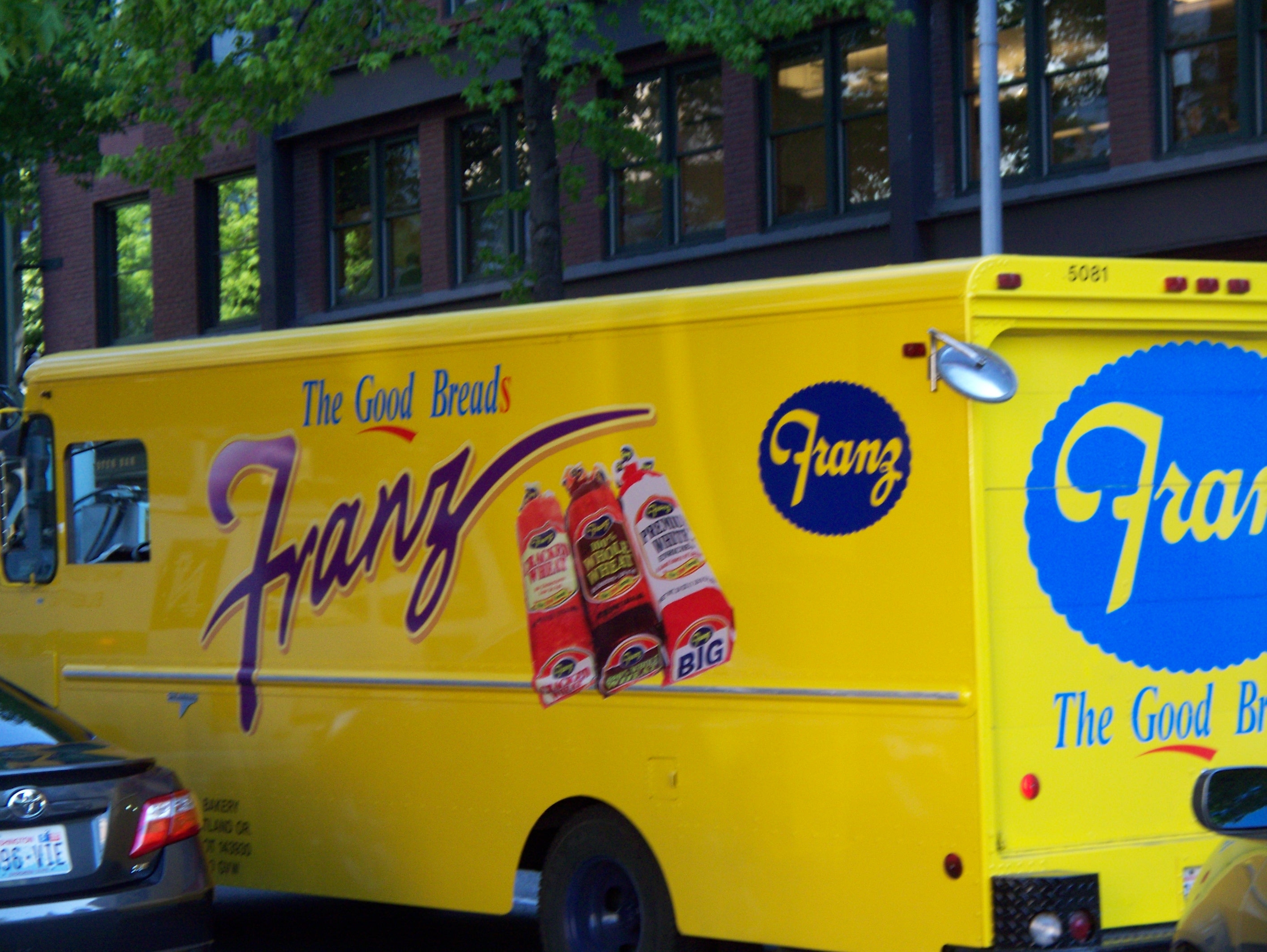 Franz Delivery truck in Seattle on June 16, 2008.